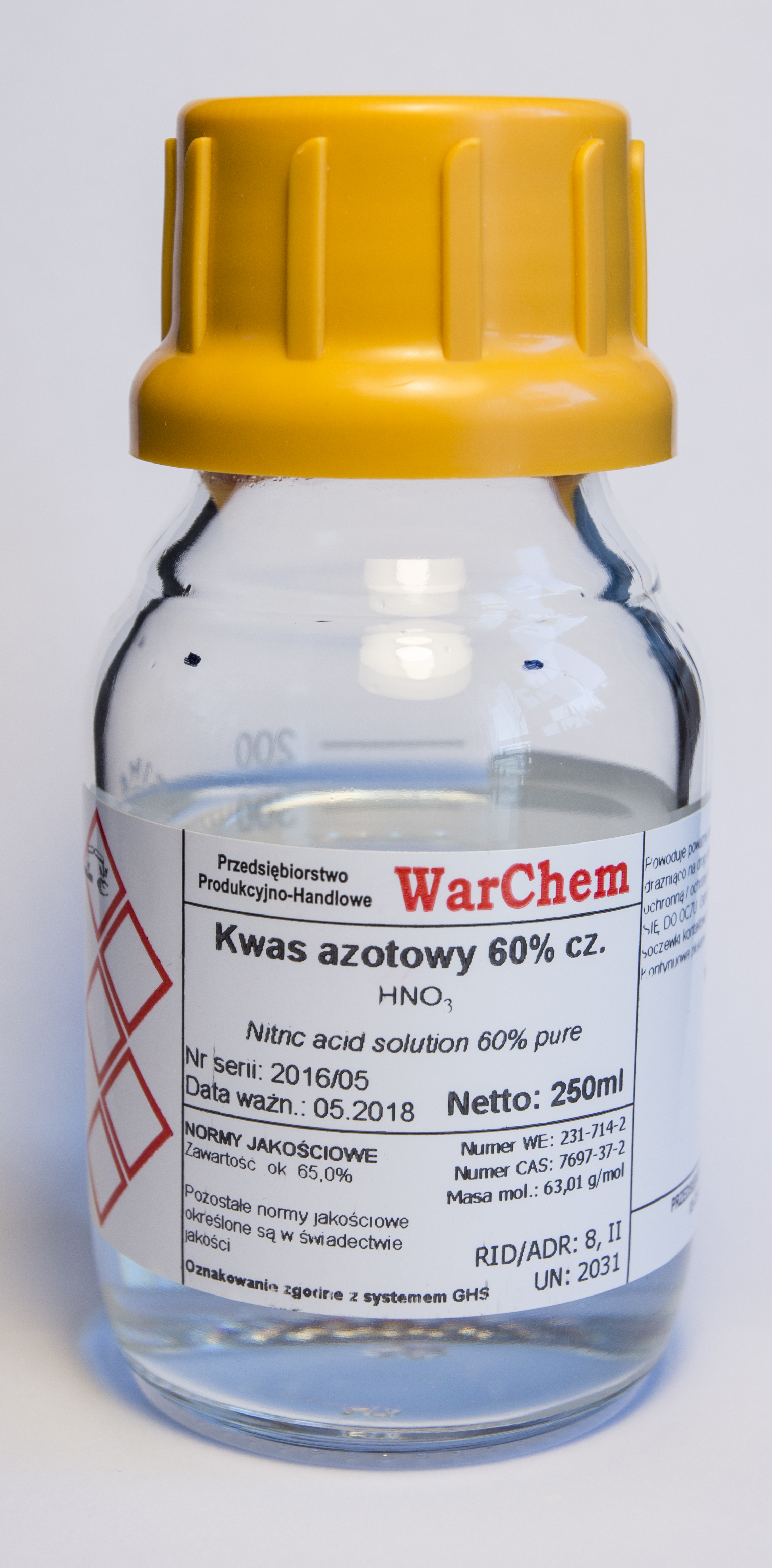 Bottle with 70% Nitric acid